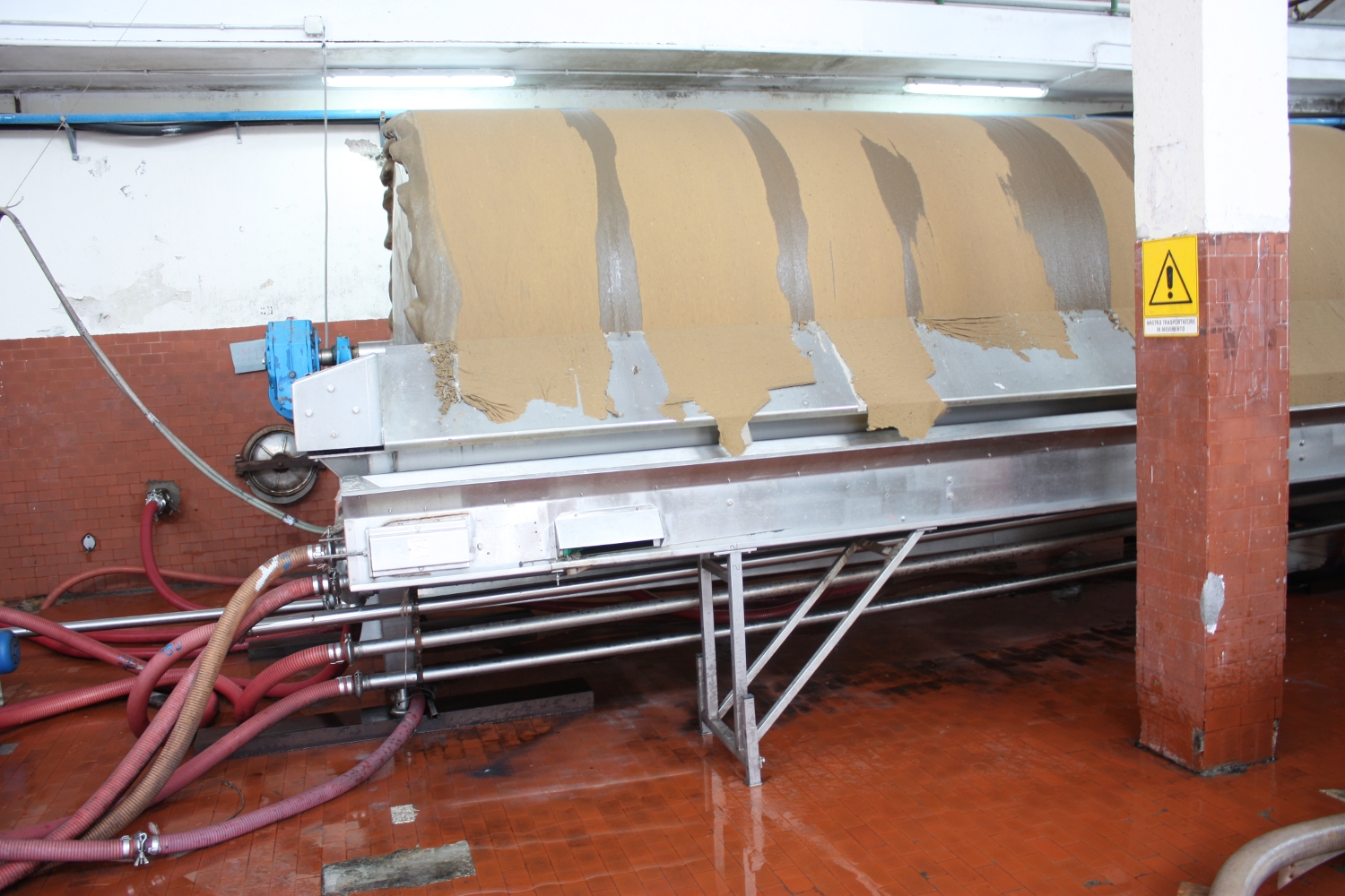 White wine being filtered with diatomaceous earth which creates a "cake" of the DE and suspended particles that form on the outside of the filter, leaving the filtered wine inside to be pumped out.